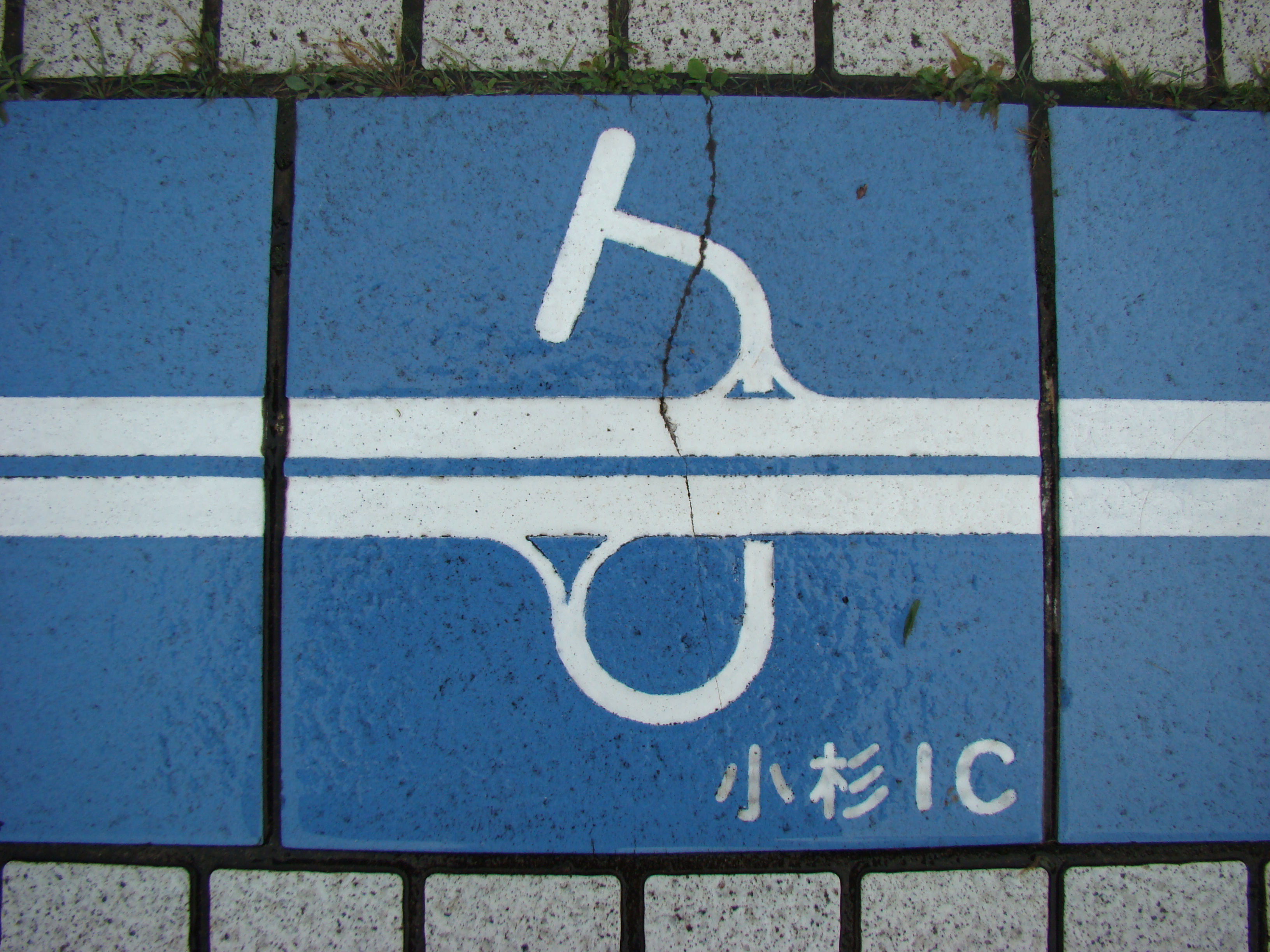 The tile which designed a shape of the Kosugi Interchange（Hokuriku Expressway）（There is this tile in Hokuriku Expressway Nadachi-Tanihama Service Area.）. Place - Chayagahara,Joetsu City,Niigata Prefecture,Japan Date - August 9, 2009 Format - JPEG, 3264x2448pixel, 24bit colors. Photographer - NALA Wiki (talk)